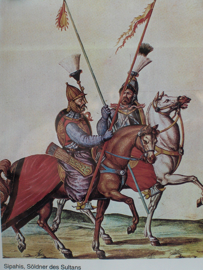 Sipahis at the Battle of Vienna (for articles on "Sipahi, see Sipahi dk:Spahi Sipahi Spahi).